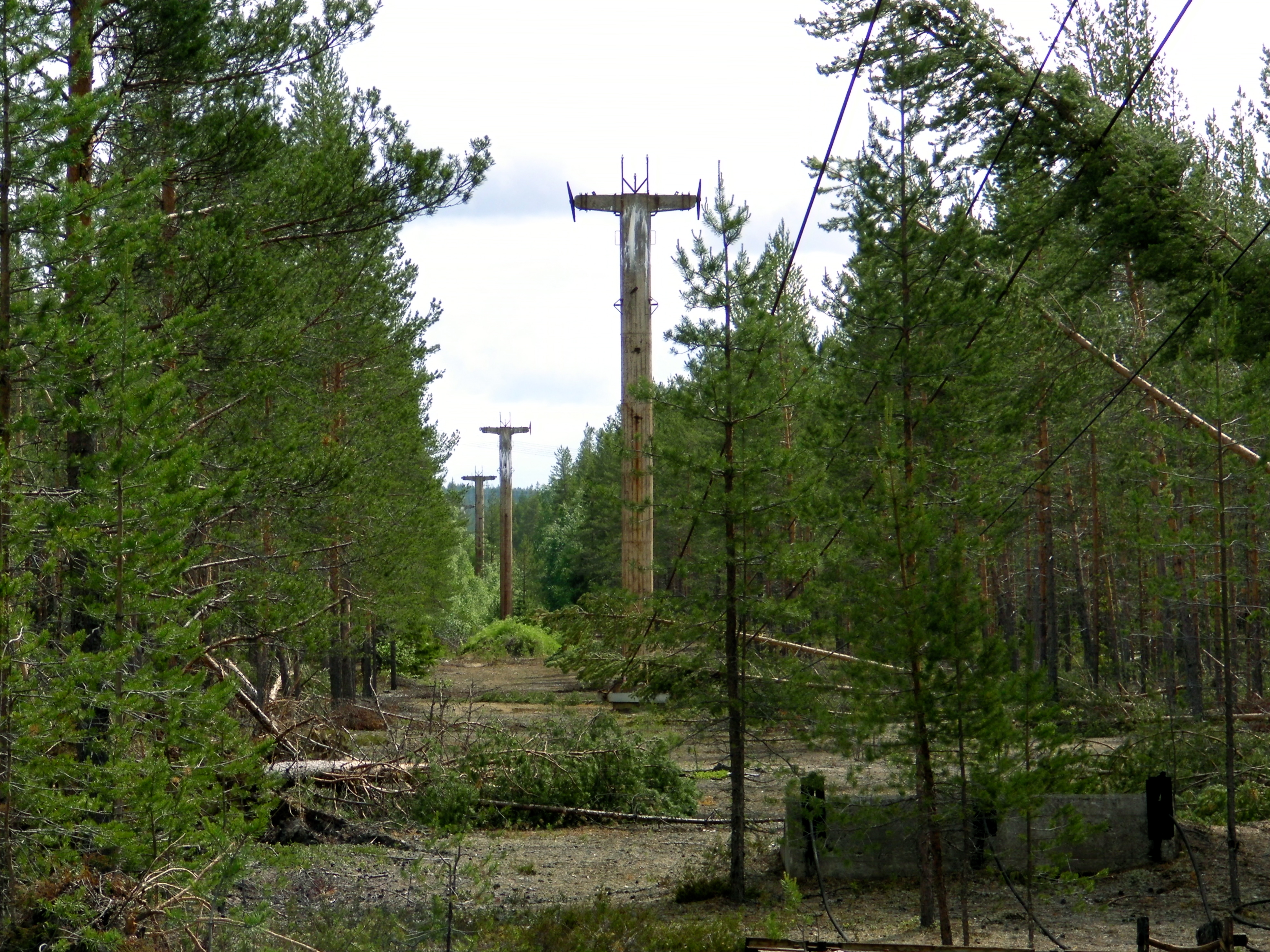 A preserved stretch of the Kristineberg-Boliden cableway at one end of the section converted for passenger traffic. This piece has been left untouched place to show the ore cableway in its operational state.